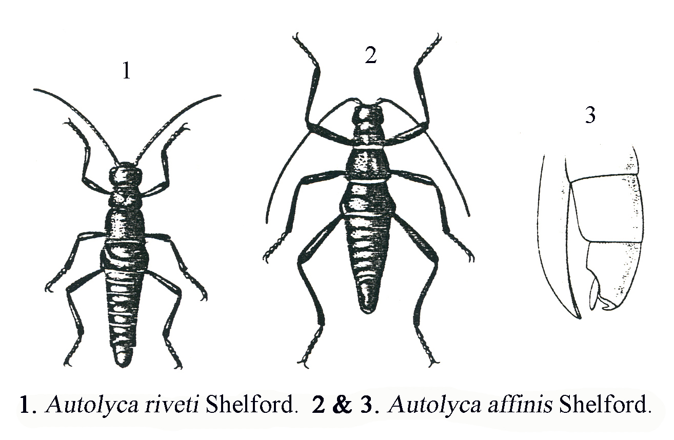 Illustrations of the stick insects Autolyca riveti Shelford, 1913 & Autolyca affinis Shelford, 1913.